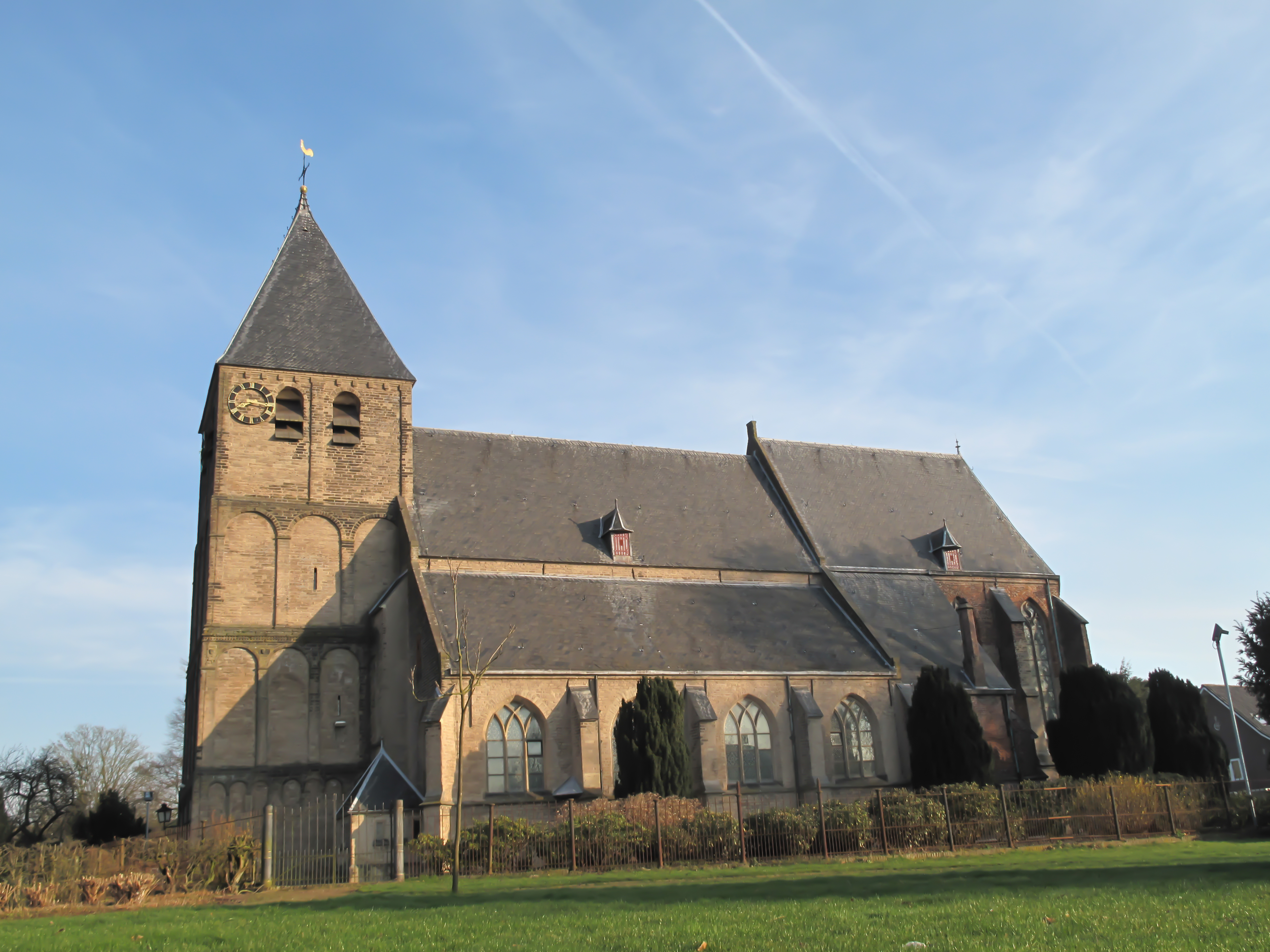 Rheden, church: de Dorpskerk